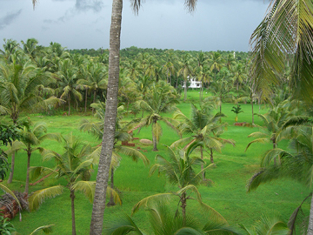 Author,s creation